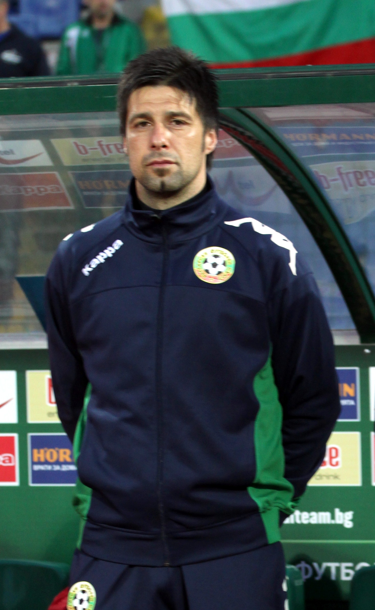 Iliya Gruev - former bulgarian soccer player, coach